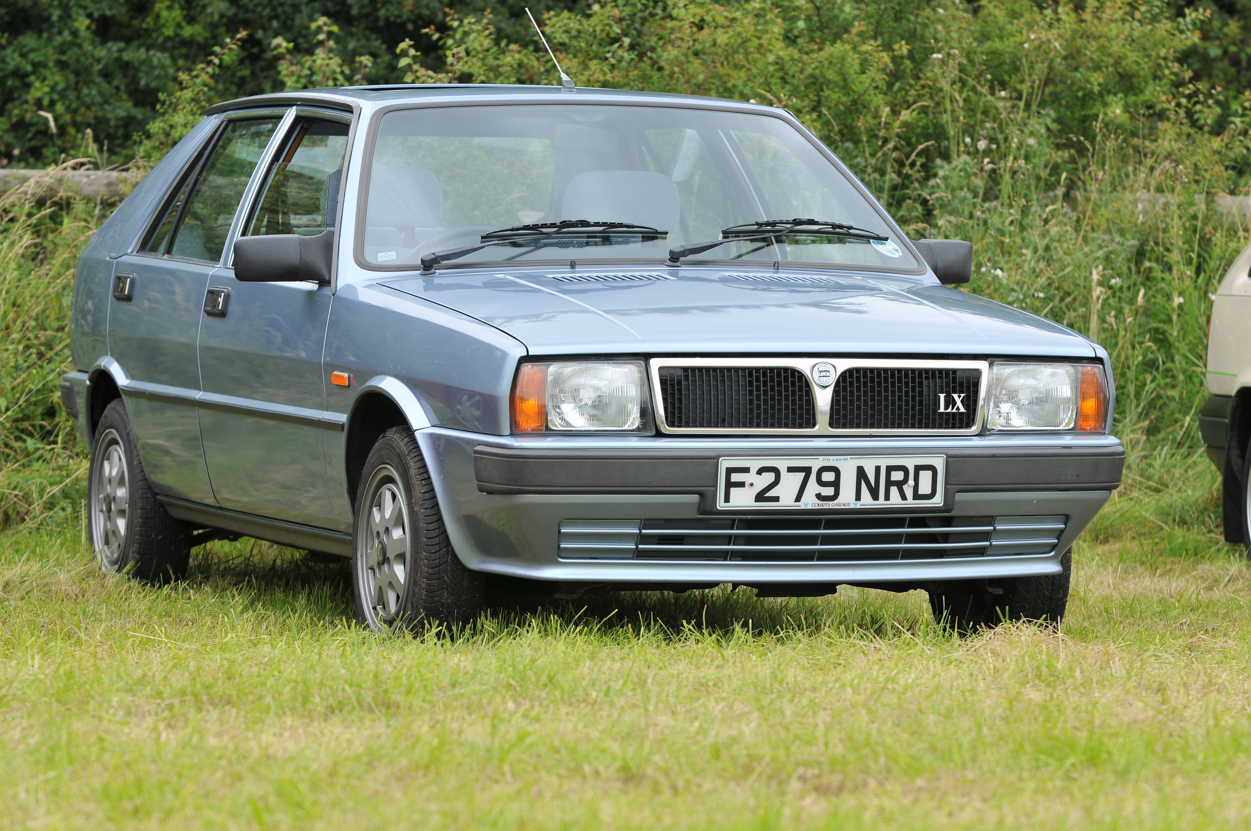 Lancia Delta LX Photograph taken at Shitefest 2012 Wiltshire.